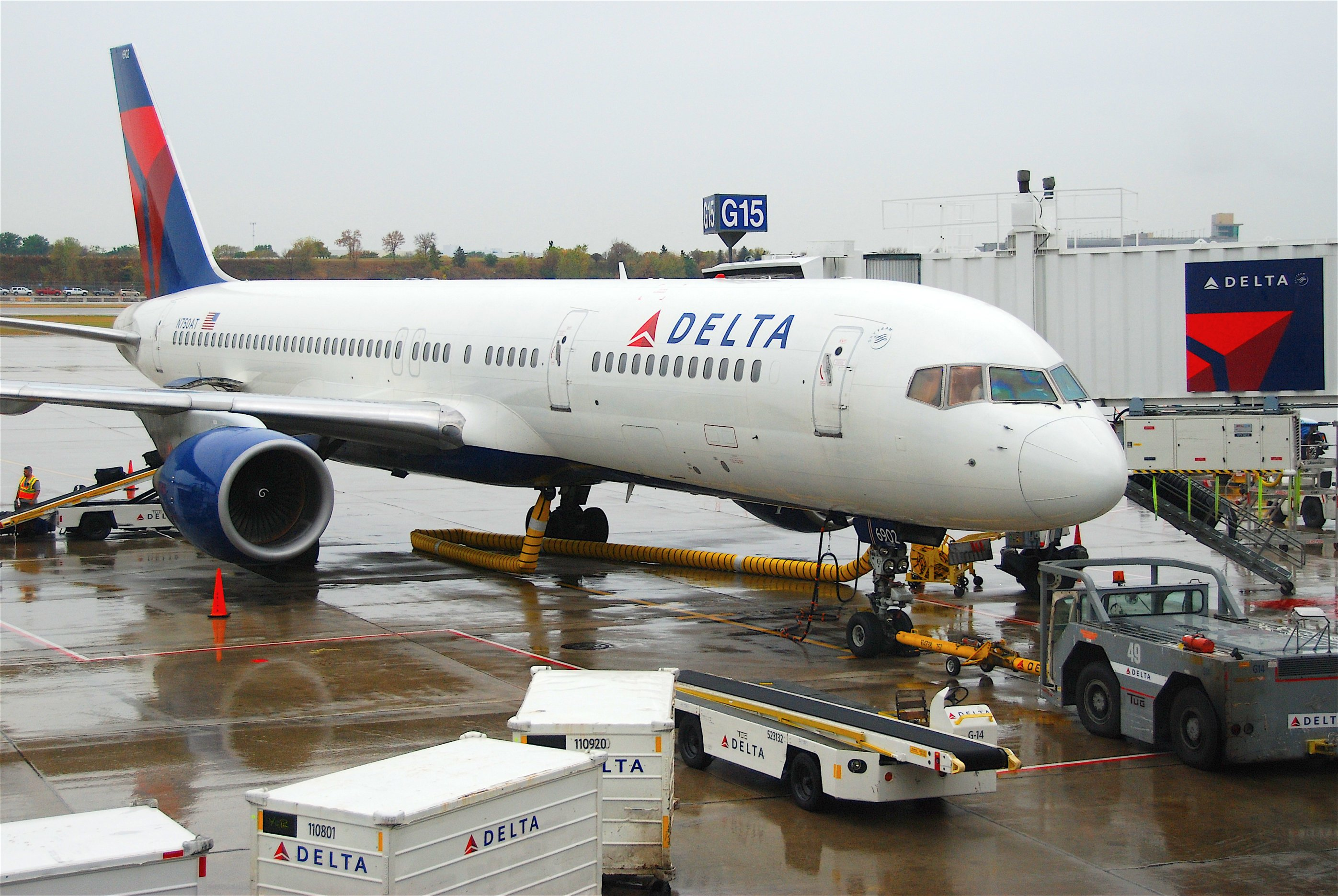 First flight: November 9, 1984... 26/11/1984 Singapore Airlines 9V-SGL 19/12/1989 American Trans Air N750AT 19/09/1996 Delta Air Lines N750AT